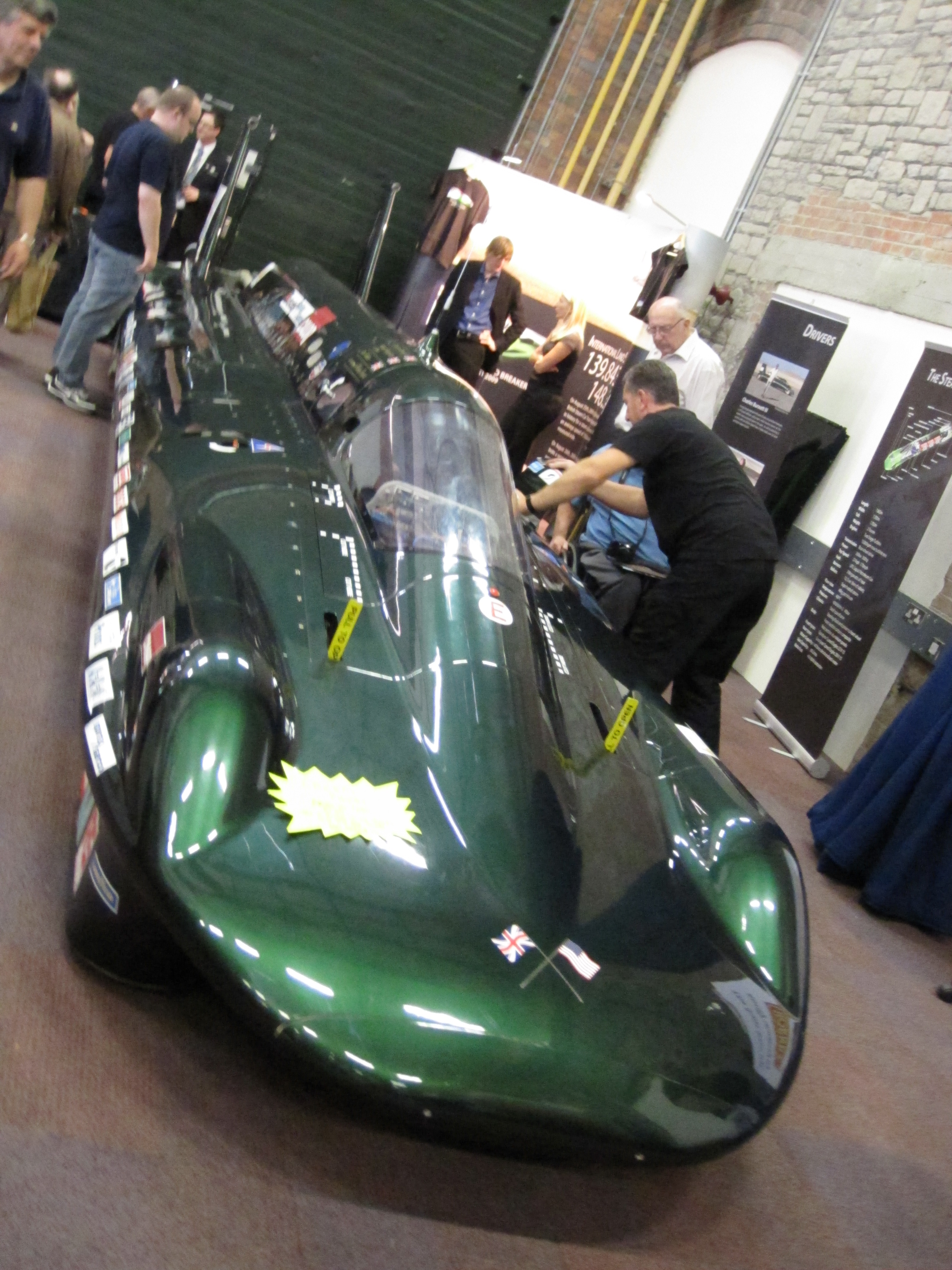 Imagination steam car challenger